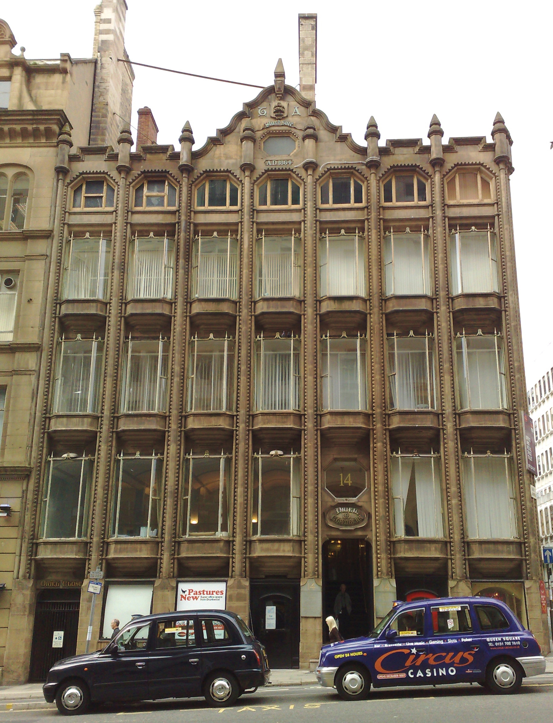 16 Cook Street about 400 metres east of Oriel Chambers. The only other work of Peter Ellis Oriel Chambers, 14 Water Street, Liverpool, L2 designed by Peter Ellis.